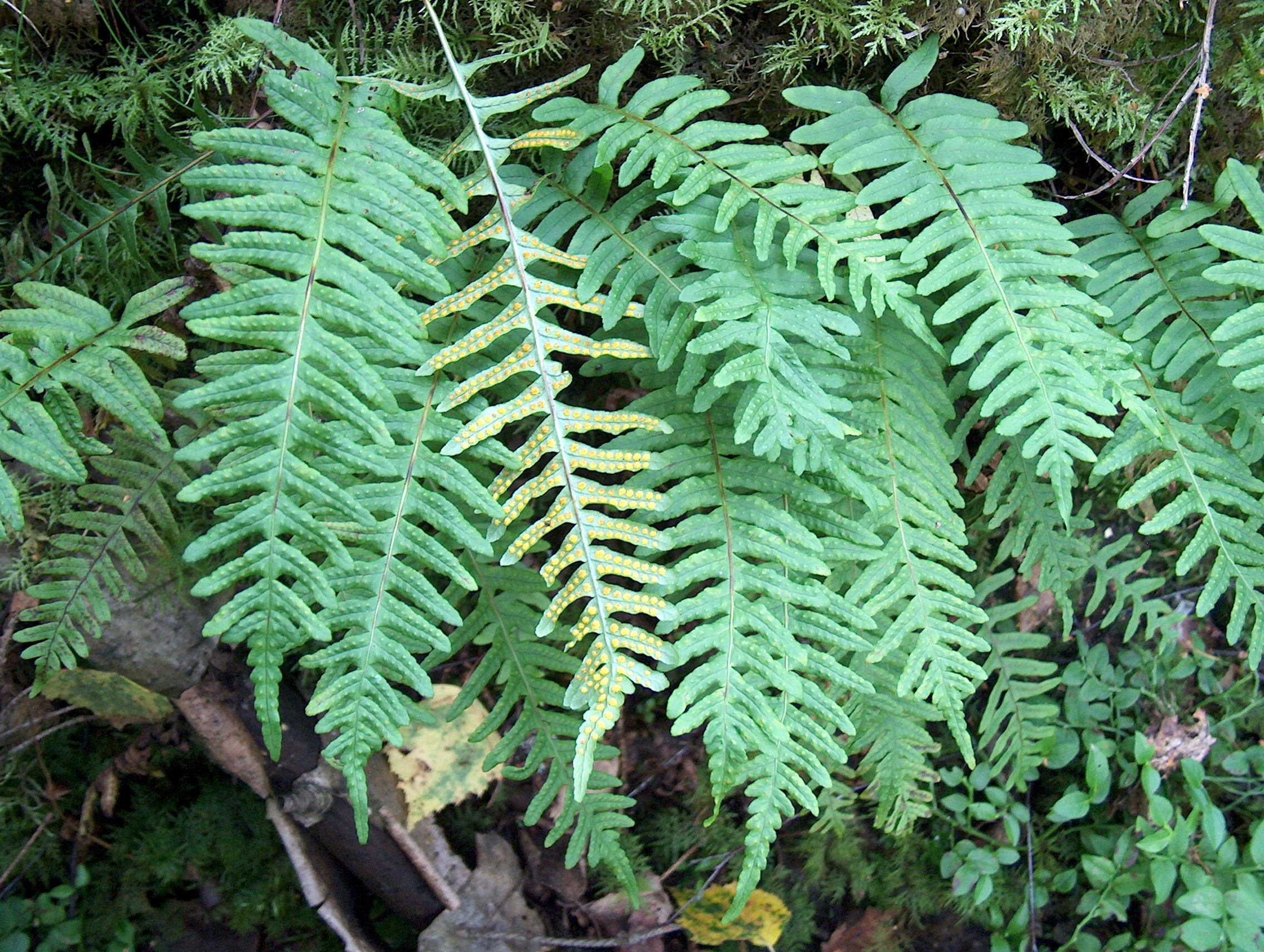 Polypodium vulgare, Common Polypody - Kerava, Finland